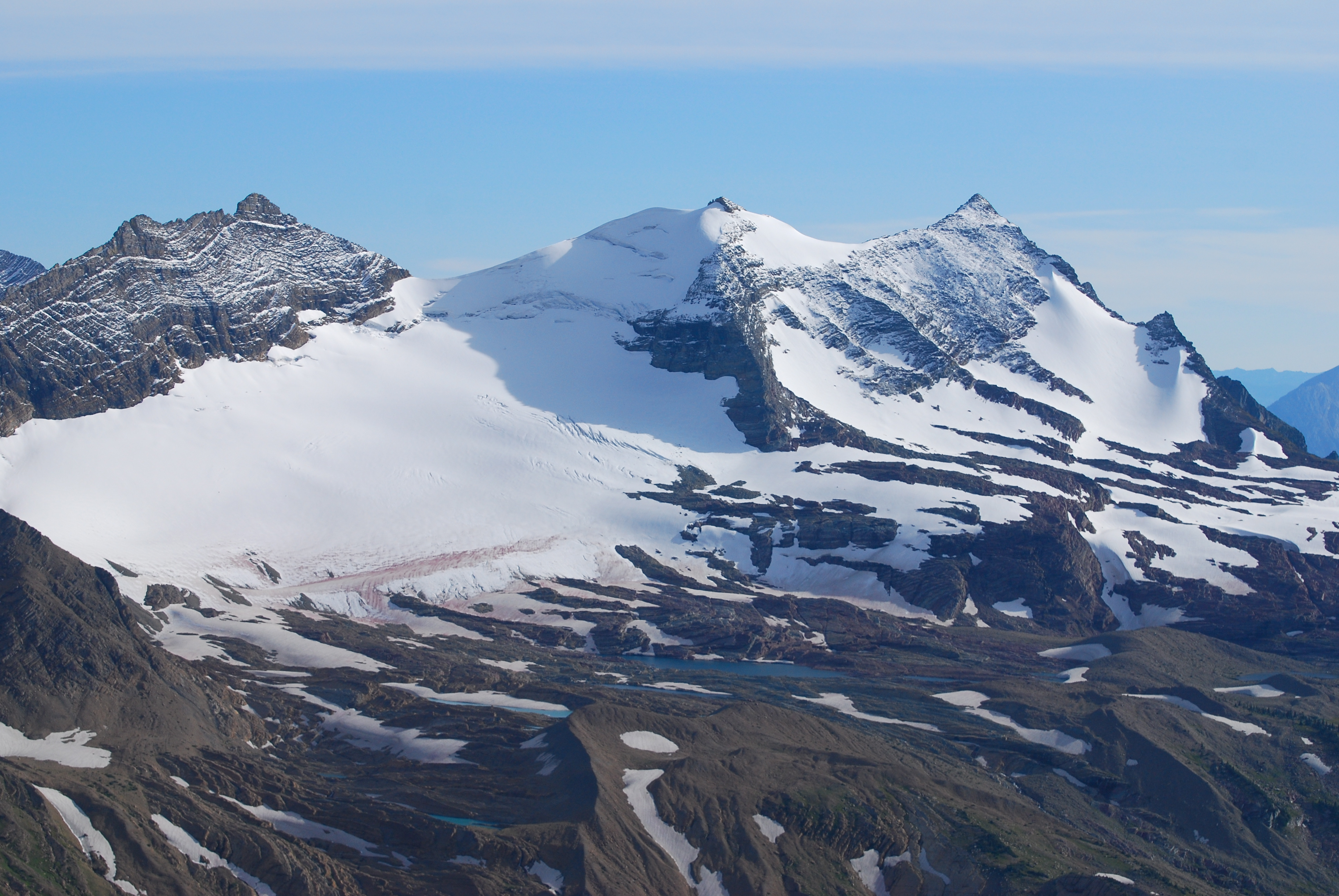 Sperry Glacier and Floral Park beneath Gunsight Mountain